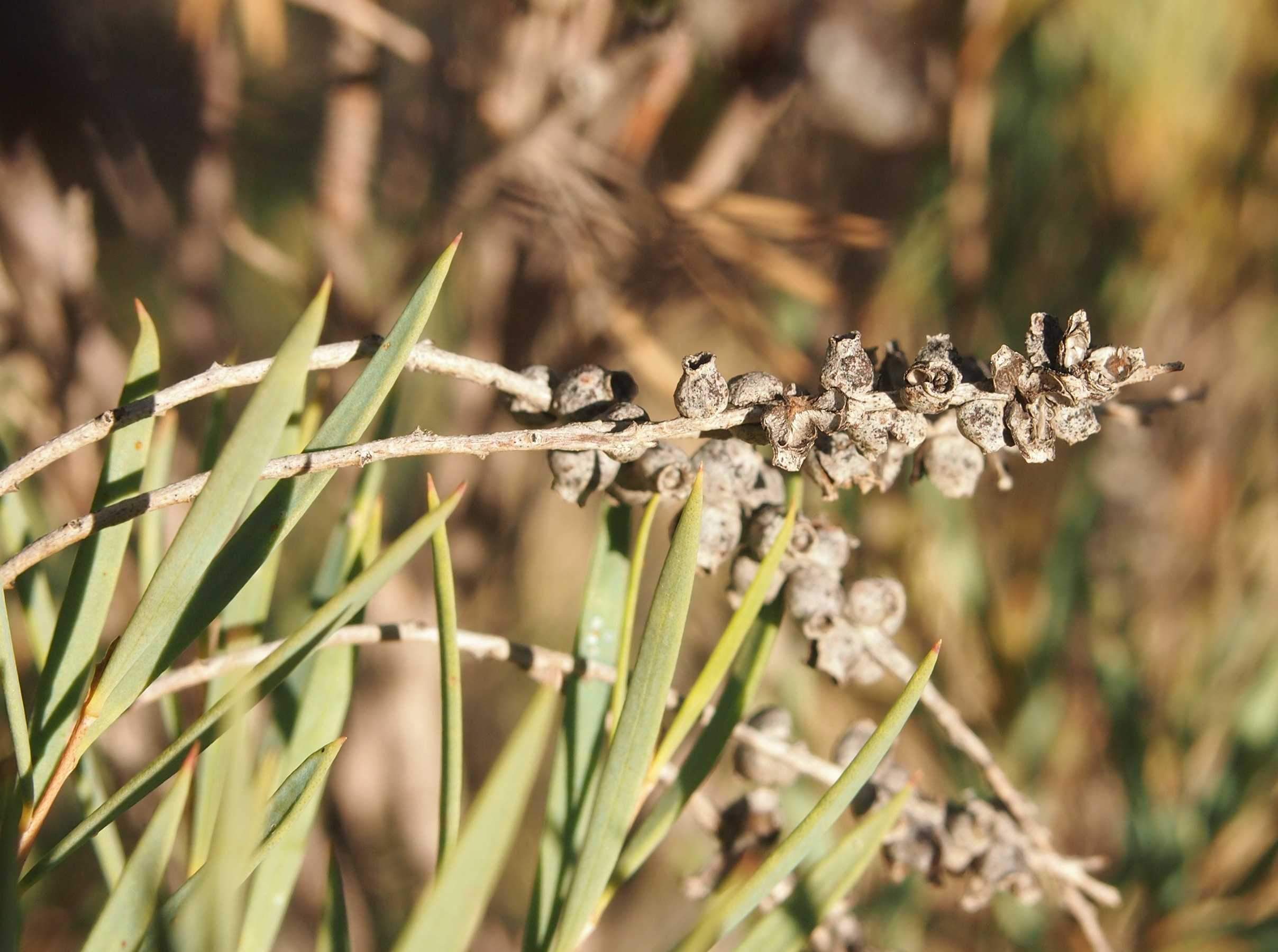 Melaleuca dissitiflora fruit